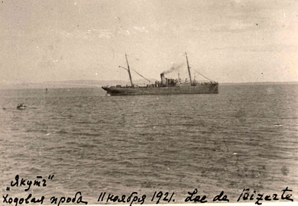 Transport Yakut, 11 November 1921.